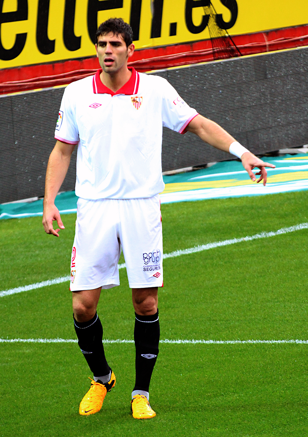 Italian Argentine footballer who plays for Sevilla FC as a central defender o defensive midfielder.